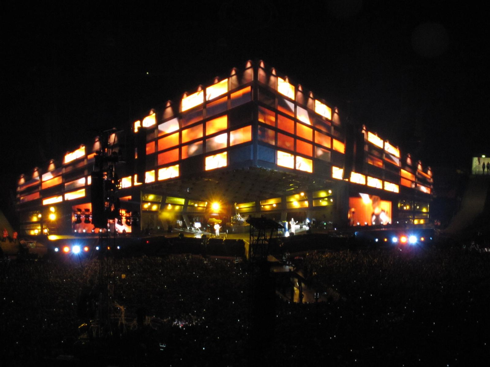 This is the band Muse playing at Wembley Stadium on September 11, 2010 with the triangular stage set up on The Resistance Tour.